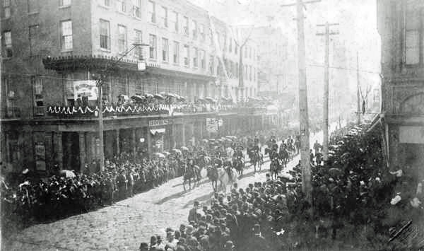 Funeral procession of Jefferson Davis, New Orleans, 1889. Grand Marshals and Aides--Camp Street. (Steeple of St. Patrick's Church visible in distance at right.) The funeral procession en route to Metairie Cemetery.